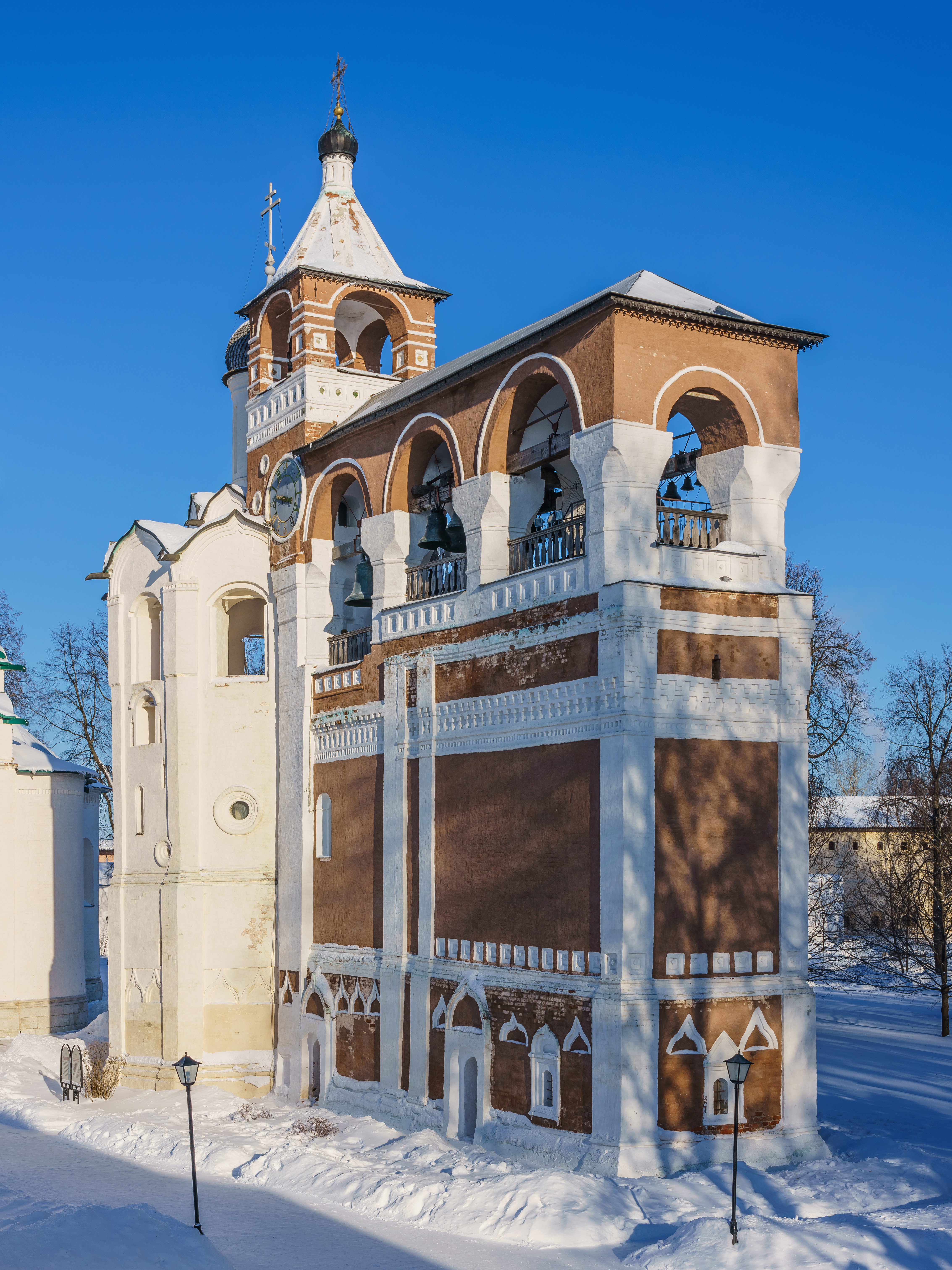 Belfry in Spaso-Evfimiev Monastery in Suzdal, Russia